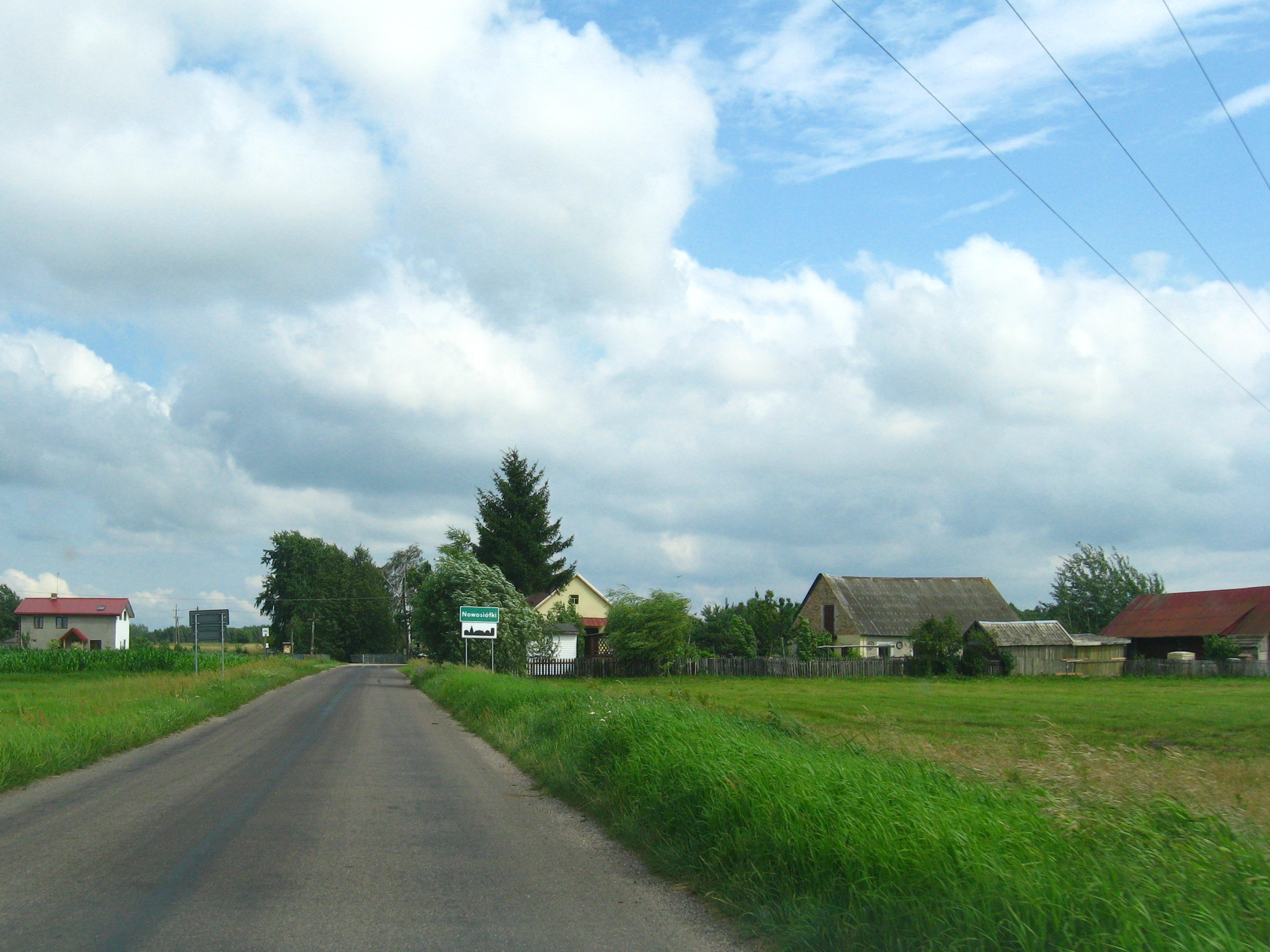 Nowosiółki — main road